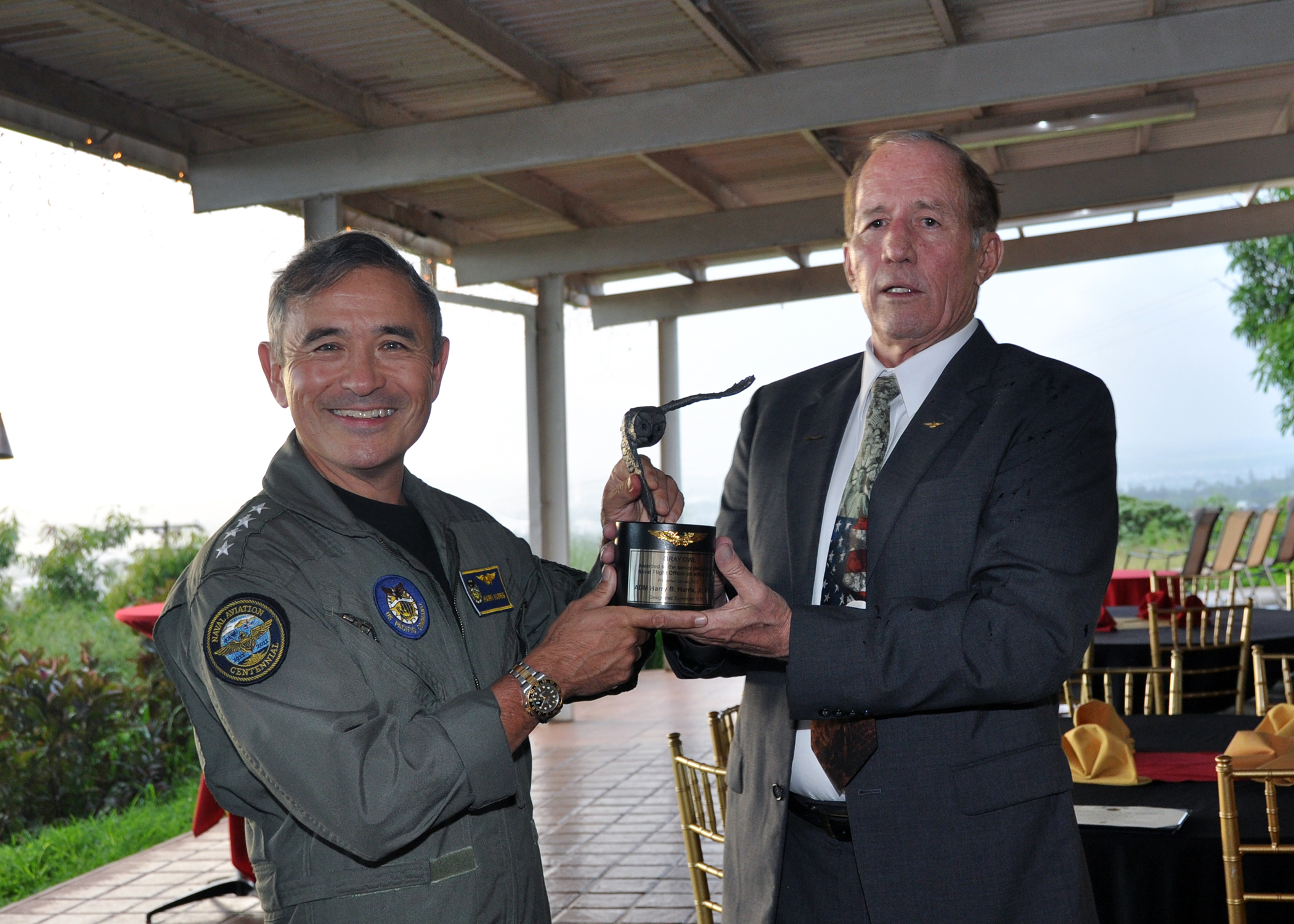 CAMP H.M. SMITH (Nov. 13, 2015) - Adm. Harry B. Harris Jr., commander of U.S. Pacific Command, receives the Gray Owl award from retired Navy Capt. Brick Nelson, a Northrop Grumman Corporate Lead Executive from San Diego, Calif. The Gray Owl award is sponsored by Northrop Grumman Corp. and is awarded to the Naval Flight Officer with the longest period of active duty service. (U.S. Army photo by Staff Sgt. Charlene Moler/Released)